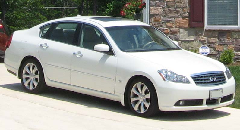 2006-2007 Infiniti Mphotographed in USA.